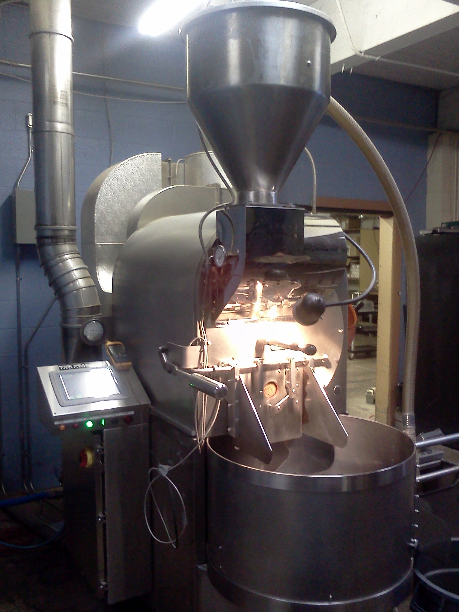 An excellent small-batch roaster